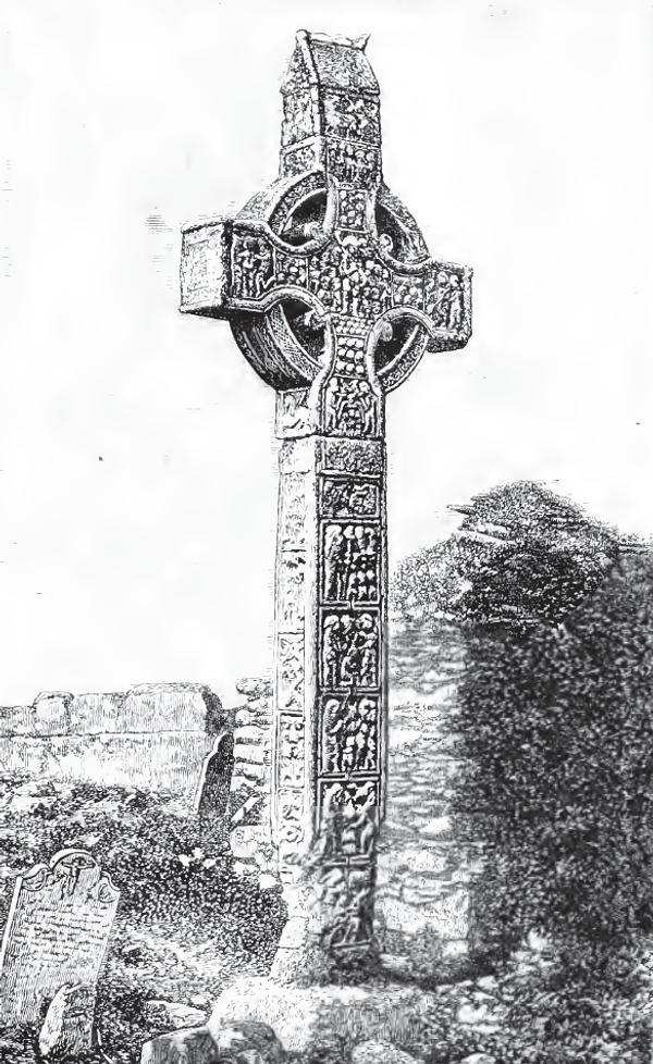 South-east high cross at Monasterboice